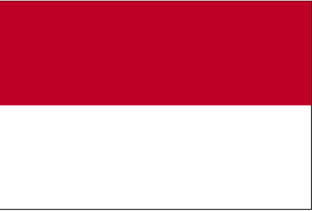 Original image from CIA World Fact Book, 2004